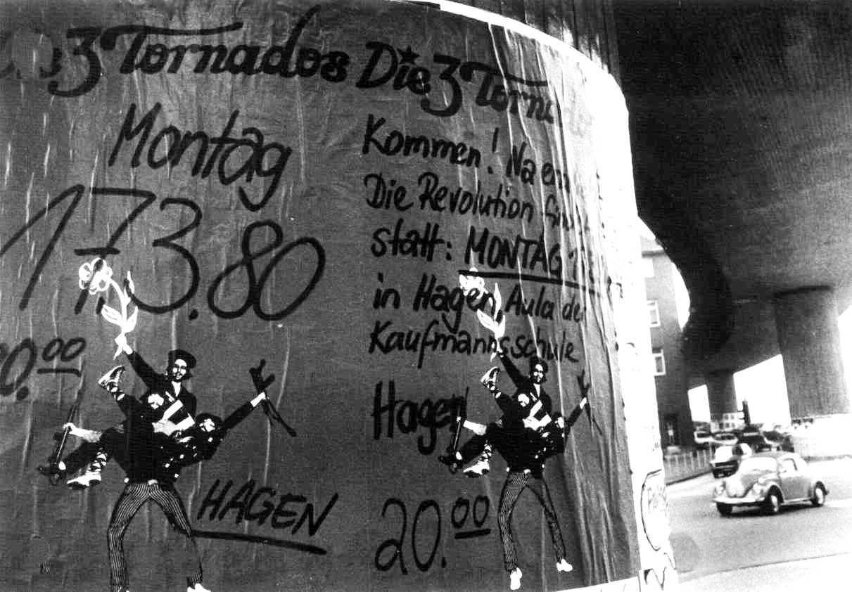 announcement of a performance in Hagen (Germany) 1980